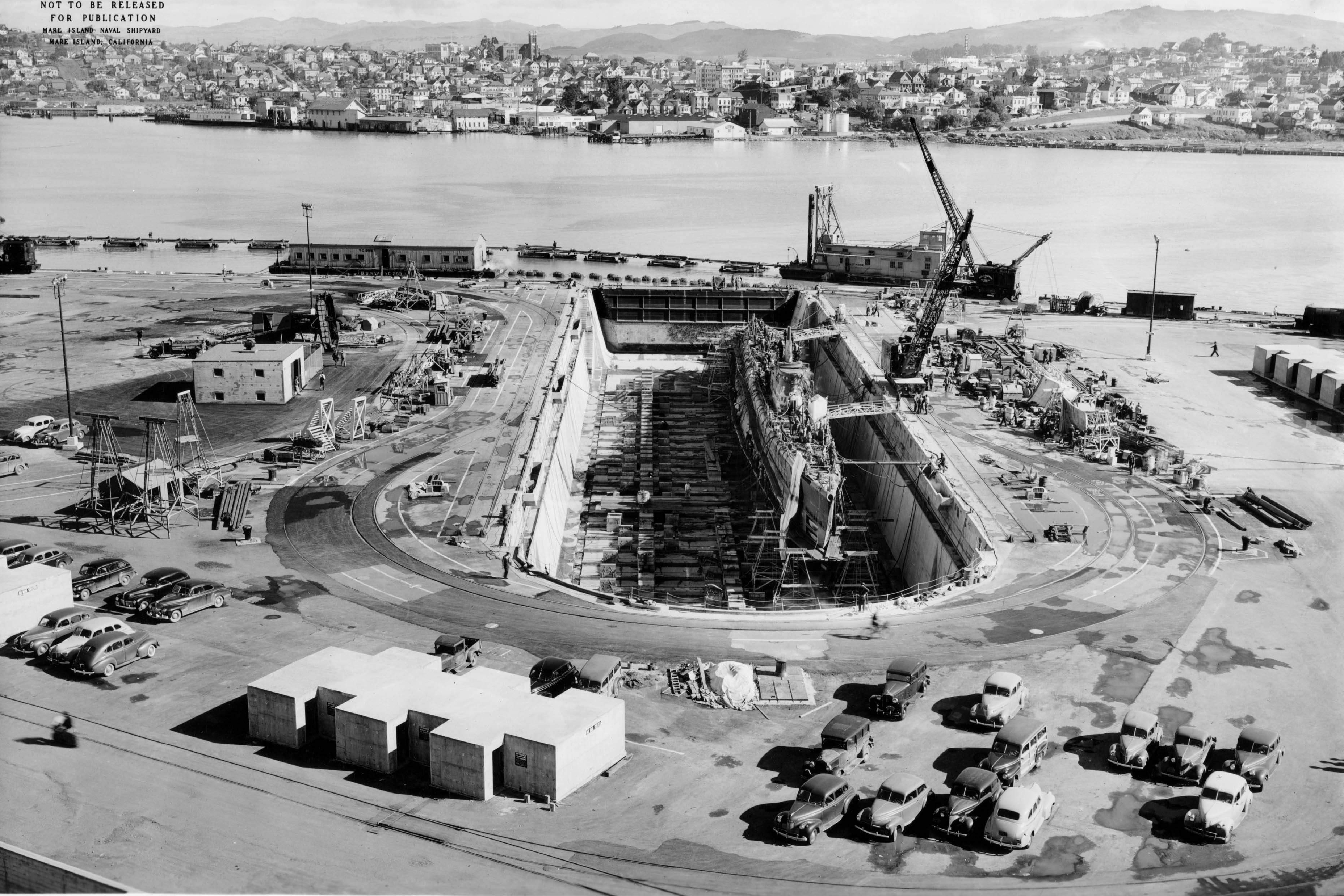 Tautog (SS-199) is seen in Mare Island's new dry dock #4 on 13 March 1942.